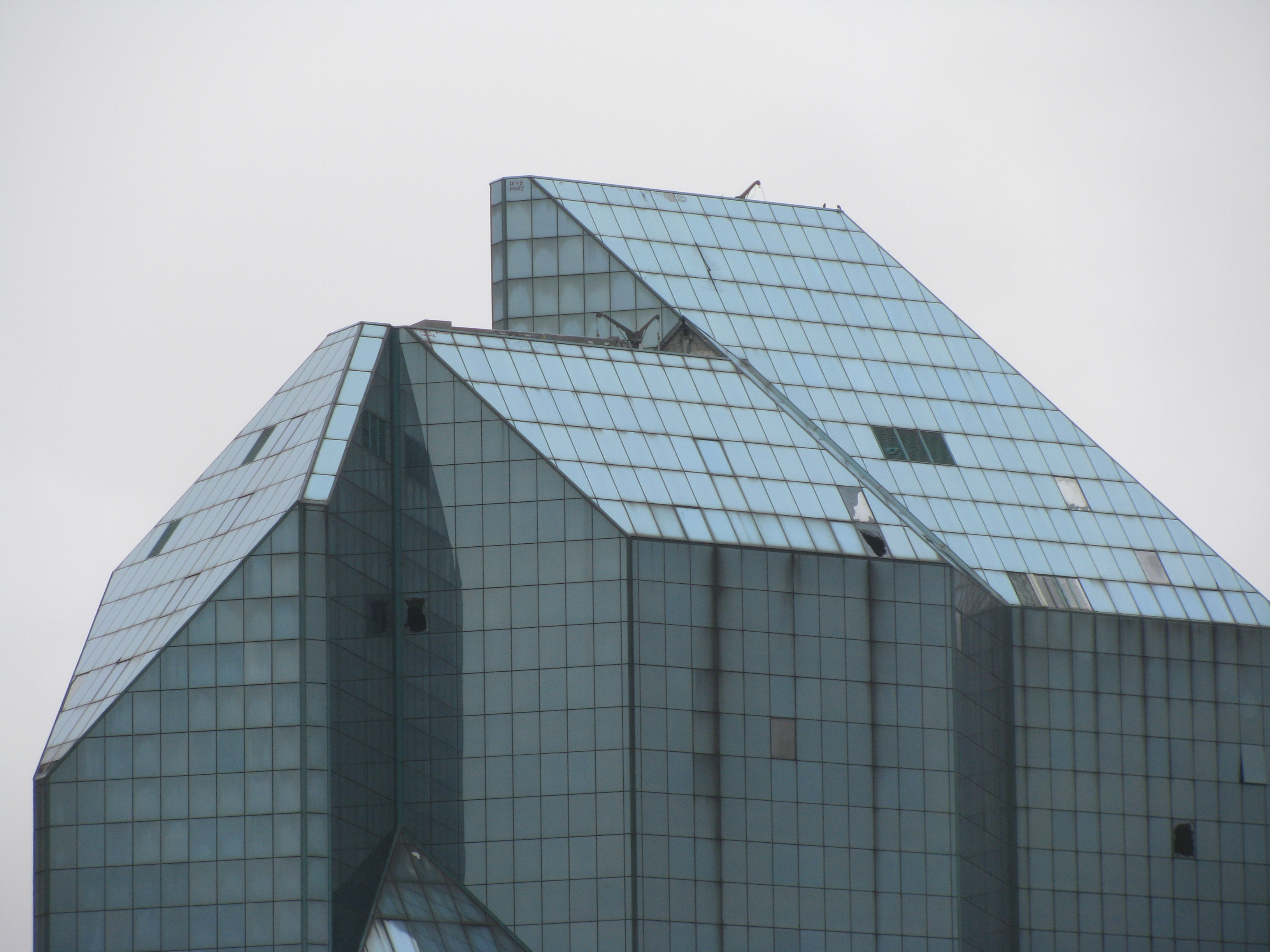 Zenith International Business Center in Moscow